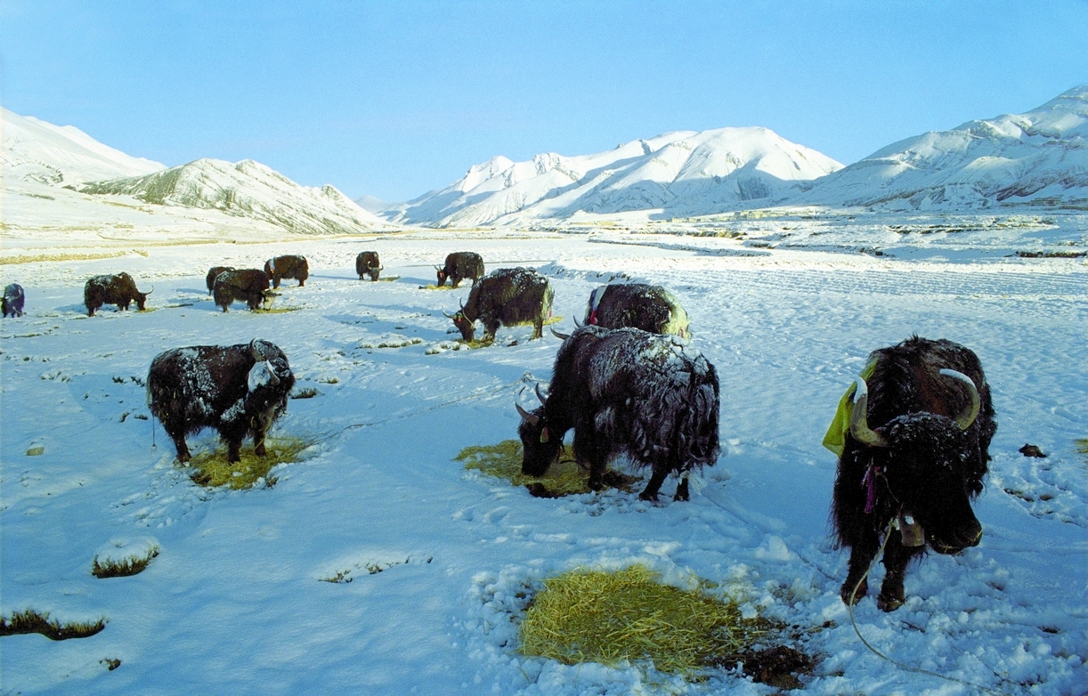 What a feast Yaks in the snow. Dzakar chu valley